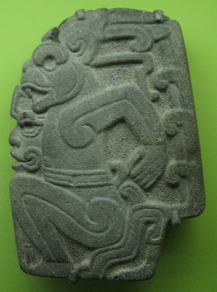 Mexico, Veracruz, Totonac Hacha, A.D. 700-900 Sculpture, Andesite, Height: 14 in. (35.56 cm) The Phil Berg Collection (M.71.73.182) Wikipedia Loves Art at the Los Angeles County Museum of Art This photo of item # M.71.73.182 at the Los Angeles County Museum of Art was contributed under the team name "artifacts" as part of the Wikipedia Loves Art project in February 2009. Los Angeles County Museum of Art The original photograph on Flickr was taken by joel.parham—please add a comment to the original Flickr page whenever a use has been made on Wikipedia or another project. Project galleries on Flickr: this institution, this team